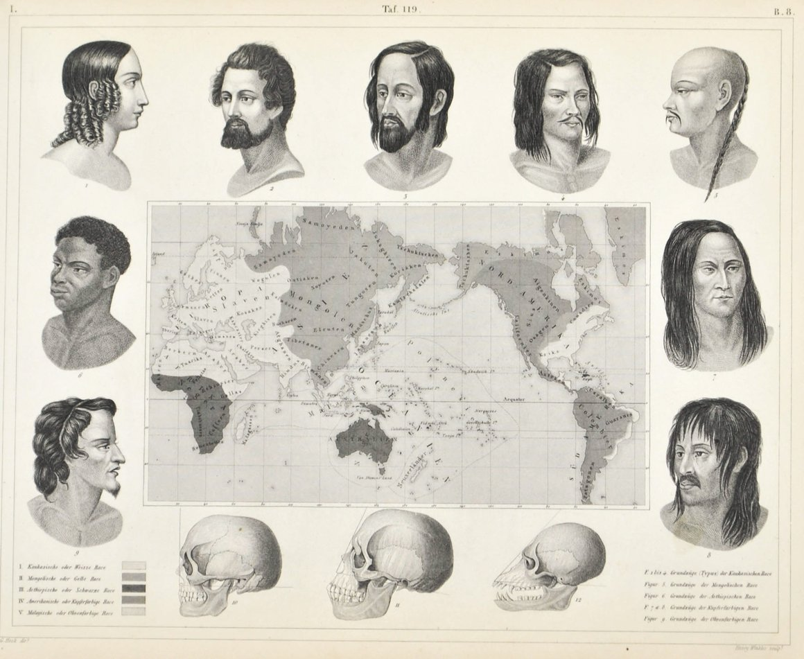 19th-century map of the five races of mankind (after Blumenbach 1779) I. Kaukasische oder Weisse Rasse II. Mongolische oder Gelbe Rasse III. Aethiopische oder Schwarze Rasse IV. Amerikanische oder Kupferfarbige Rasse V. Malayische oder Olivenfarbige Rasse